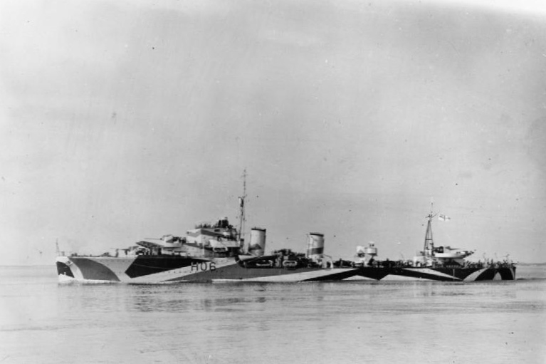 British destroyer HMS Hurricane (H06) underway.